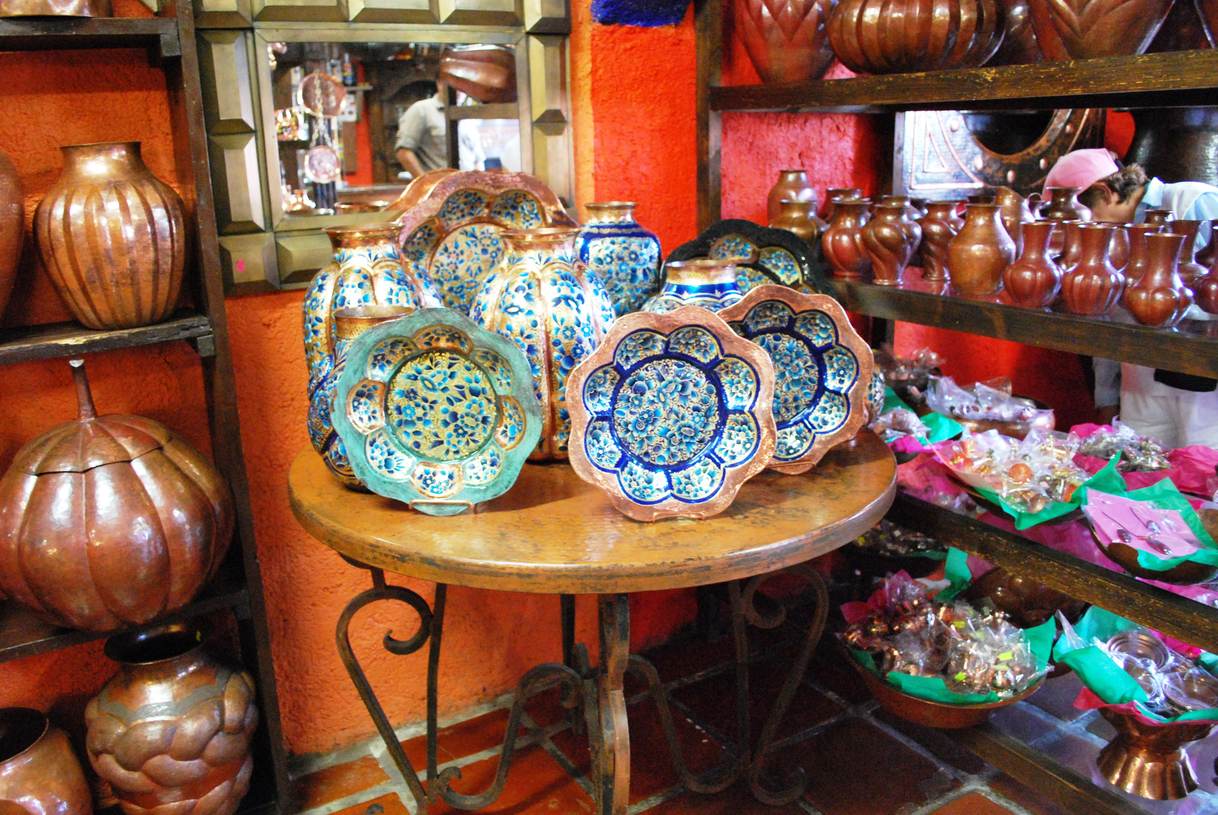 Painted copperwork vases and plates on display in Santa Clara del Cobre, Michoacan